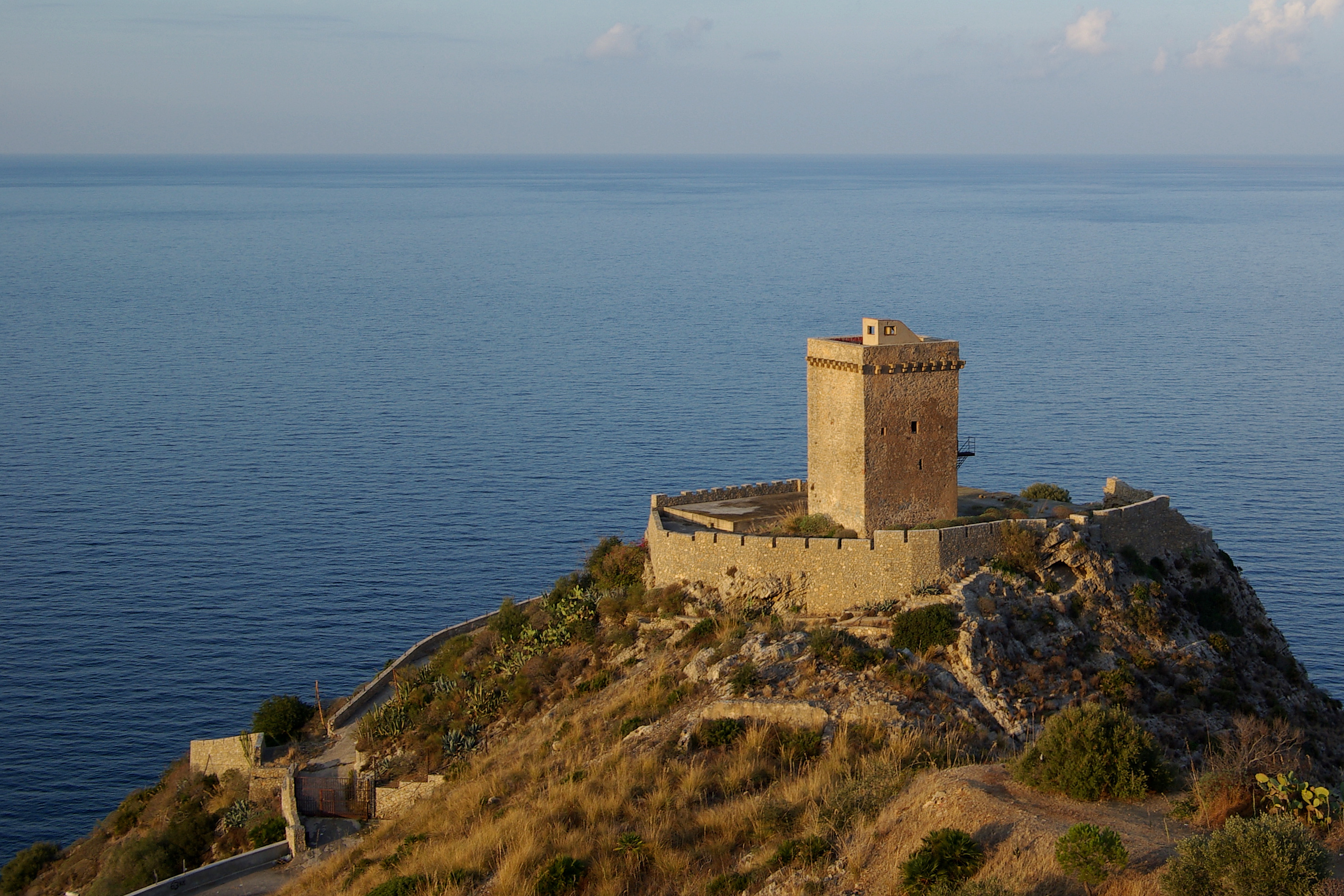 Italy, Sicily, Altavilla Milicia, Torre Normanna